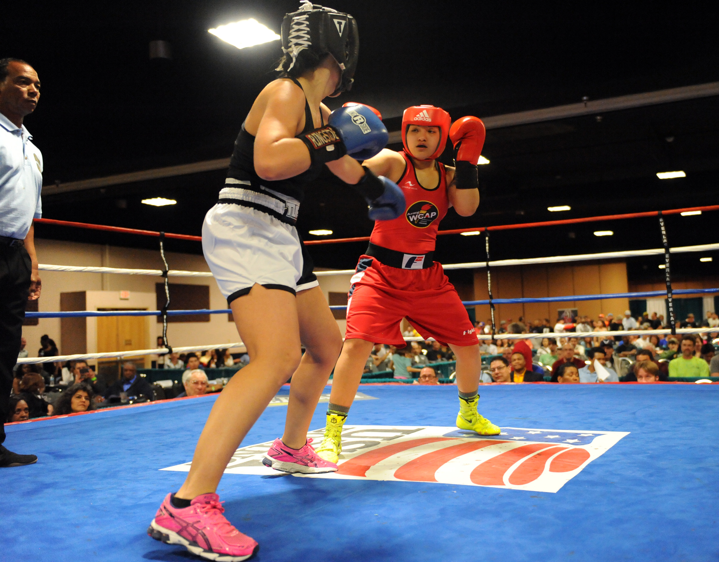 U.S. Army World Class Athlete Program boxer Pfc. Rianna Rios, right in red, of Fort Carson, Colorado, wins a unanimous decision over Katina Melendrez in the women's open 132-pound division finale of the 2015 Colorado Golden Gloves Championships at the Crown Plaza Convention Center in Denver, Colo., March 27, 2015. (U.S. Army photo by Tim Hipps, IMCOM Public Affairs)